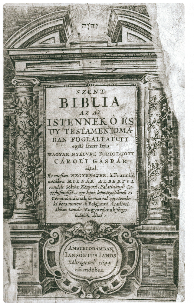 Cover_of_the_first_Hungarian_Bible_printed_in_the_Netherlandslabel QS:Len,"Cover_of_the_first_Hungarian_Bible_printed_in_the_Netherlands" label QS:Lhu,"Az első Hollandiában nyomtatott magyar biblia címlapja"